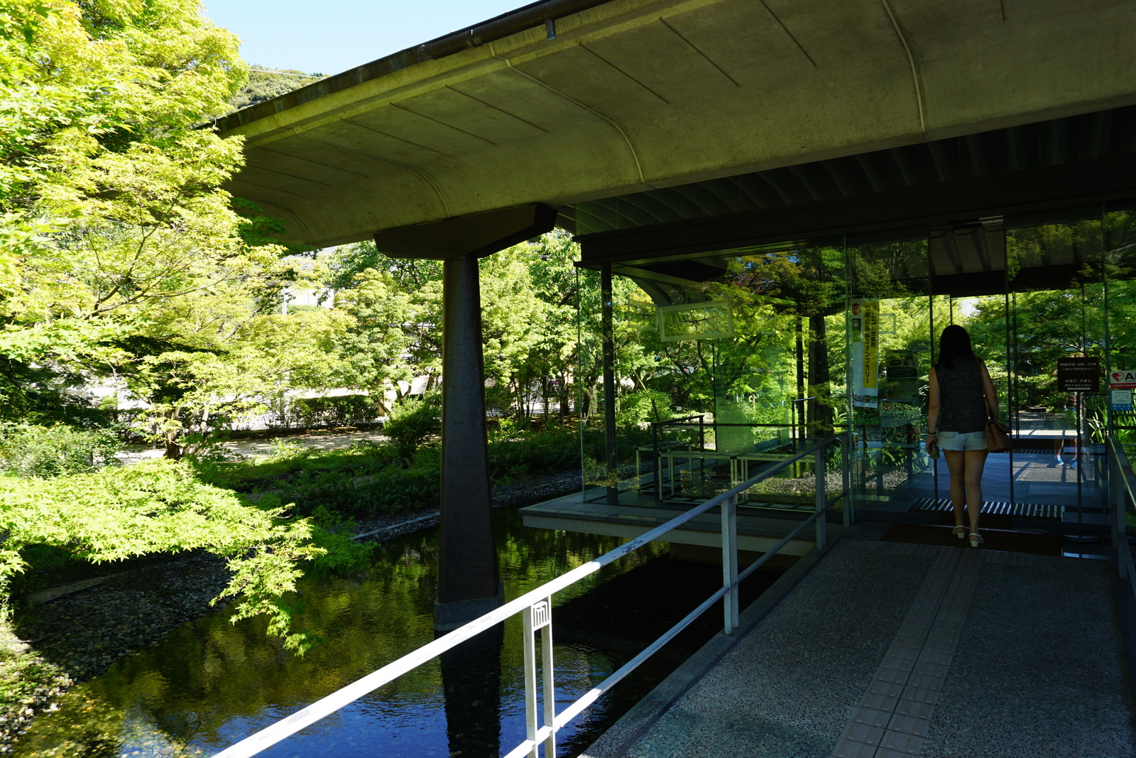 Entrance to Tale of Genji museum in Uji